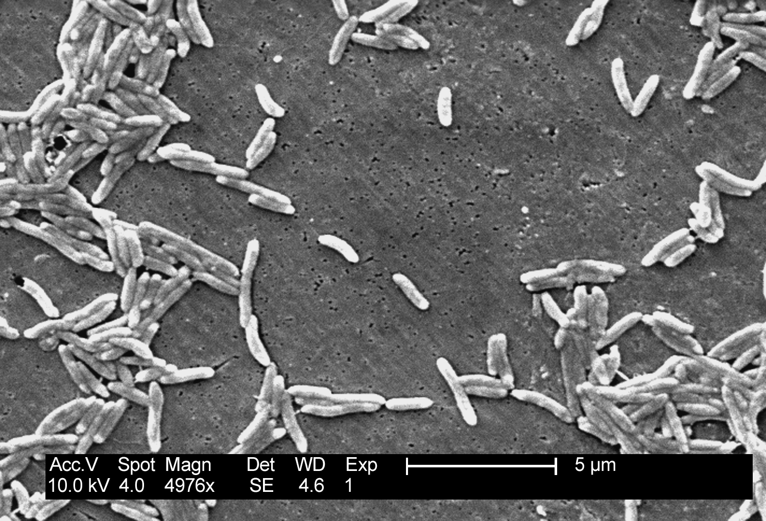 This scanning electron micrograph depicts a grouping of Gram-negative Campylobacter fetus bacteria, magnified 4,976x. The “S-shaped” C. fetus bacterium, also known as C. fetus ssp. intestinalis or Vibrio fetus var. intestinalis, is an opportunistic human pathogen with a worldwide distribution pattern.